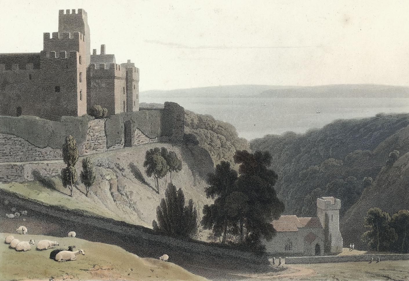 A view of St Donat's Castle and a church lower down on the hill. Sheep are grazing in the foreground and one can see the sea in the background.